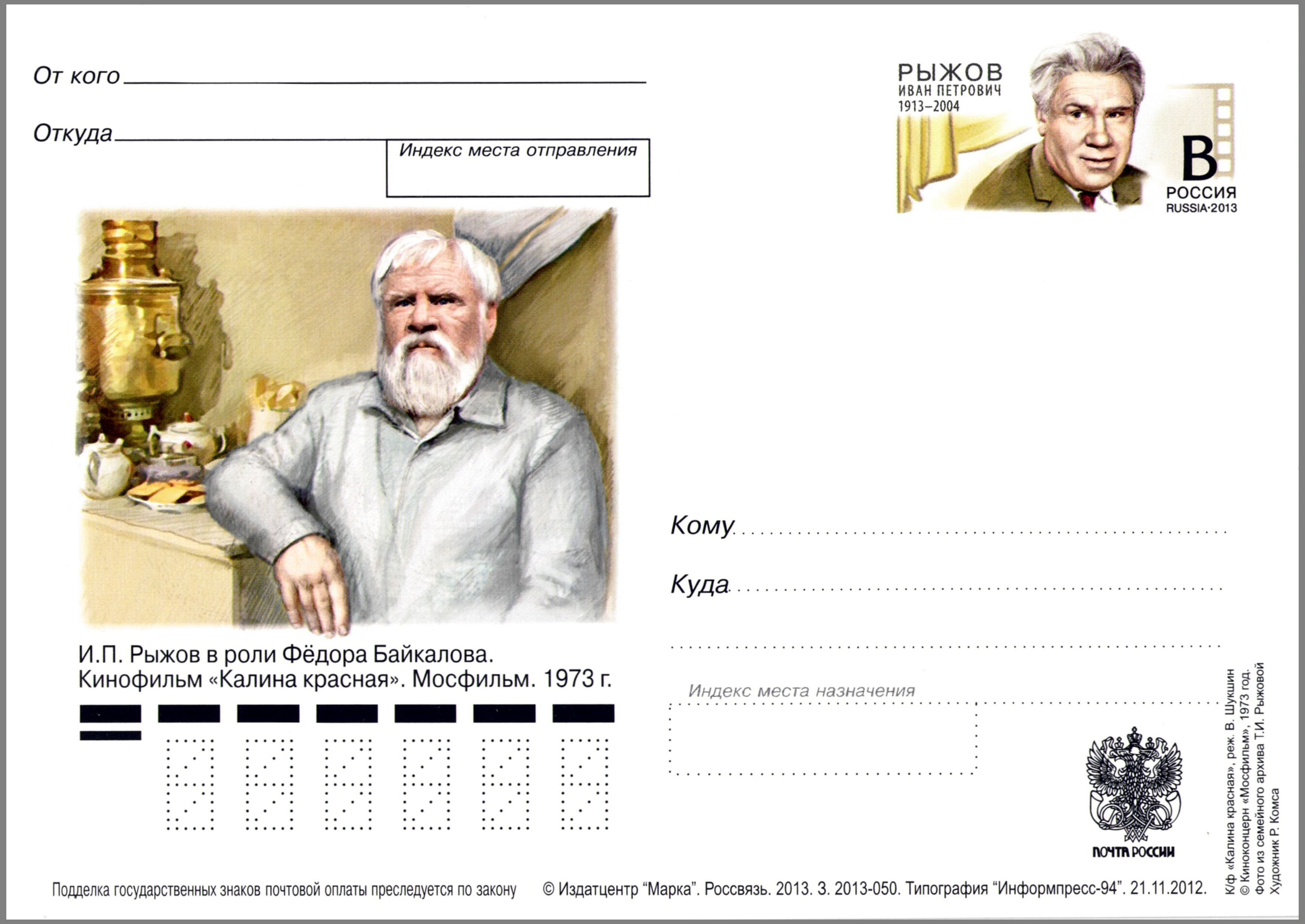 100th birth anniversary of the Soviet cinema and theater actor Ivan Ryzhov (1913–2004). The postal stationery card with the imprinted commemorative stamp, Russia, 21 January 2013, PTC Marka Catalogue No 240-окр/13, Michel No PSo230. Coated paper. Offset printing. Size of the postal card: 105×148 mm. Print run: 12,000. The commemorative non-denominated stamp “Letter B” (for domestic postal cards): the portrait of Ivan Ryzhov, the photo from the family archive of Tatiana Ryzhova. The illustration: Ivan Ryzhov as Feodor Baikalov in the film The Red Snowball Tree (USSR, Mosfilm, 1973).